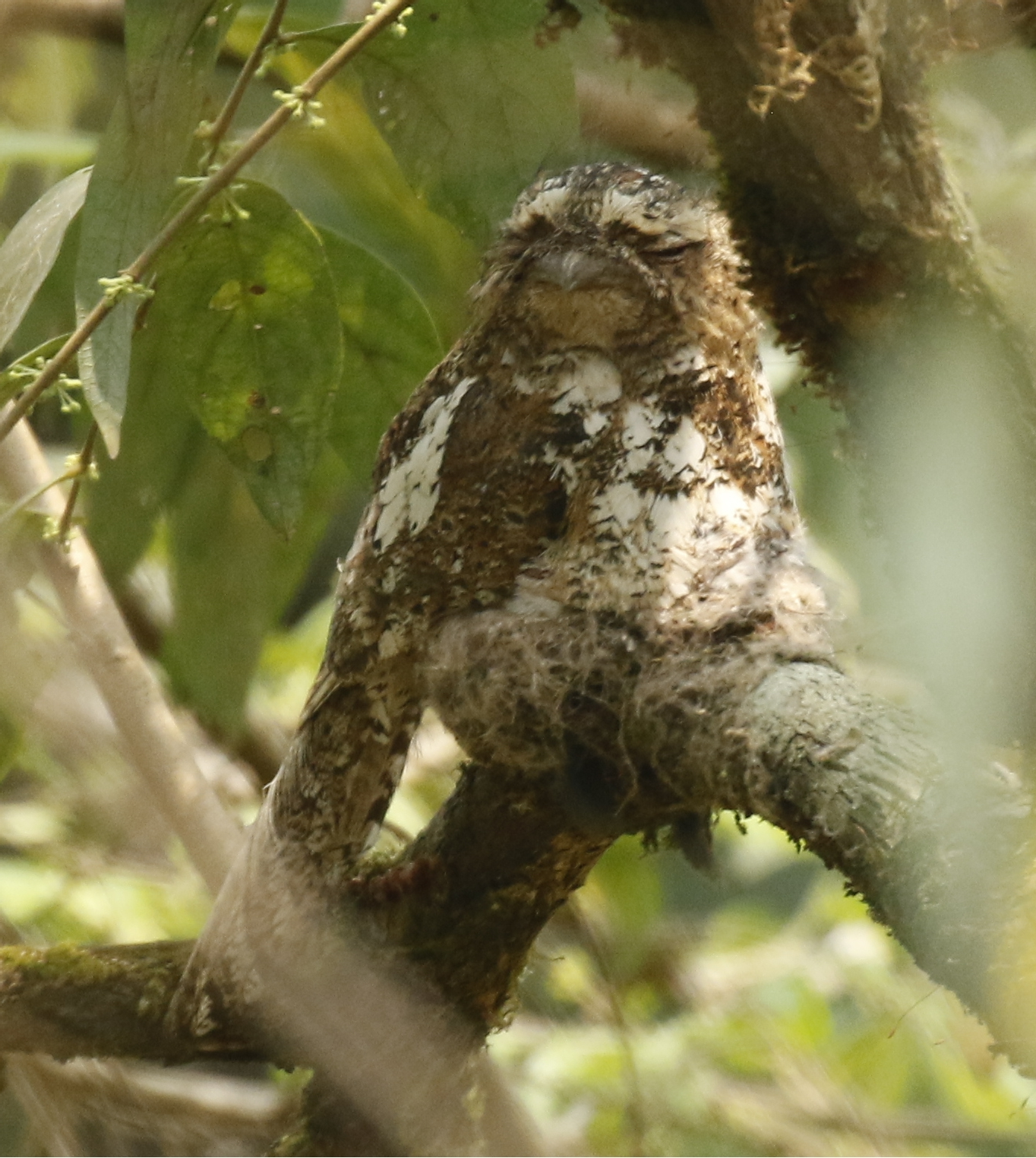 Doi Lang Mountain - Thailand